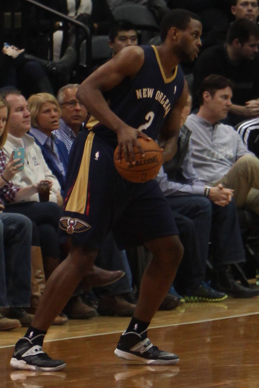 Darius Miller at the Target Center